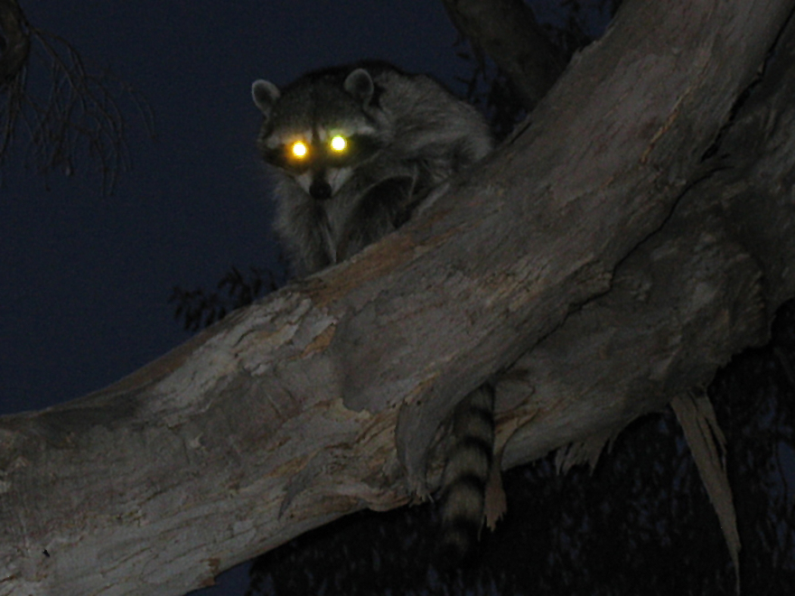 The raccoon is in the tree. The eyes lighten up with the flash of the camera.